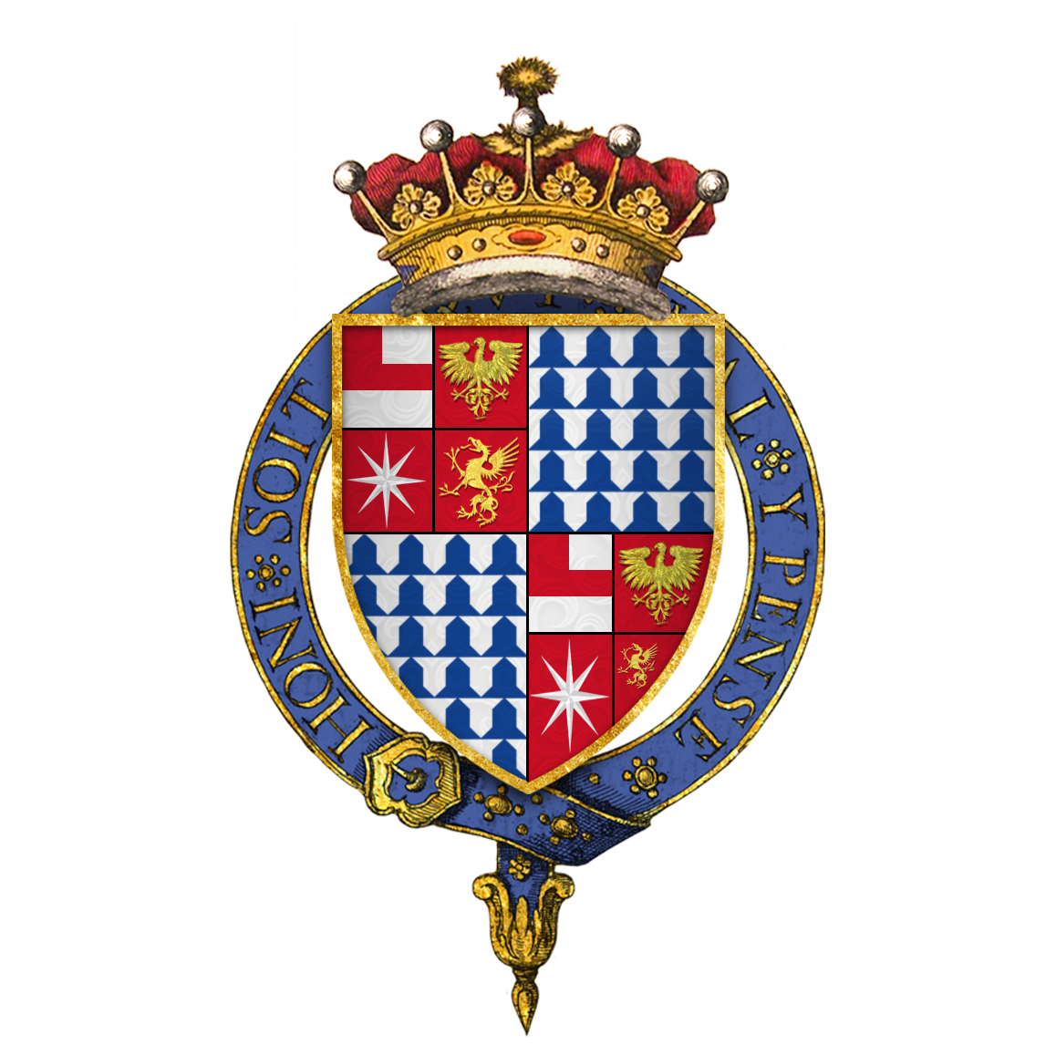 Quartered arms of Sir Anthony Woodville, 2nd Earl Rivers, KG. Quarterly of 4, 1st & 4th grand quarters, quarterly of 4, 1:Argent, a fess and a quarter gules (Woodville); 2: Gules, an eagle displayed or; 3: Gules, an estoile argent (des Baux, for Margaret of Baux); 4: Gules, a griffin segriant or (Rivers); 2nd & 3rd grand quarters: Vair